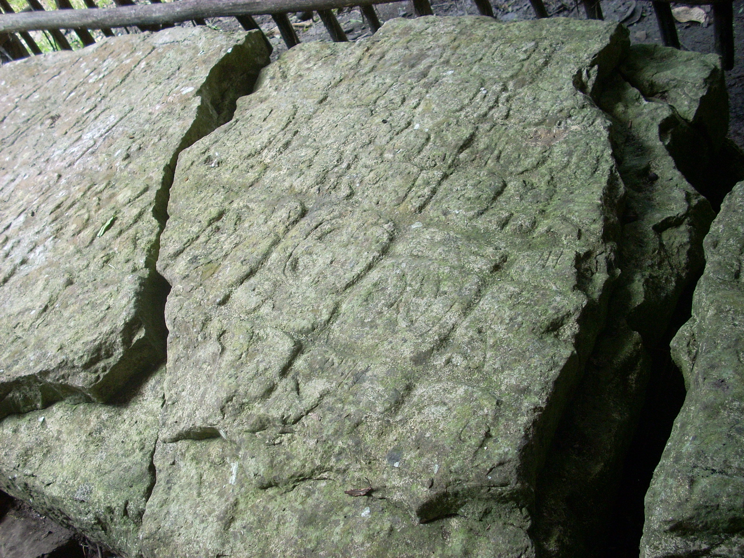 Fragment of Stela 2 at Ixkun with hieroglyphic text. Dolores, Peten, Guatemala.